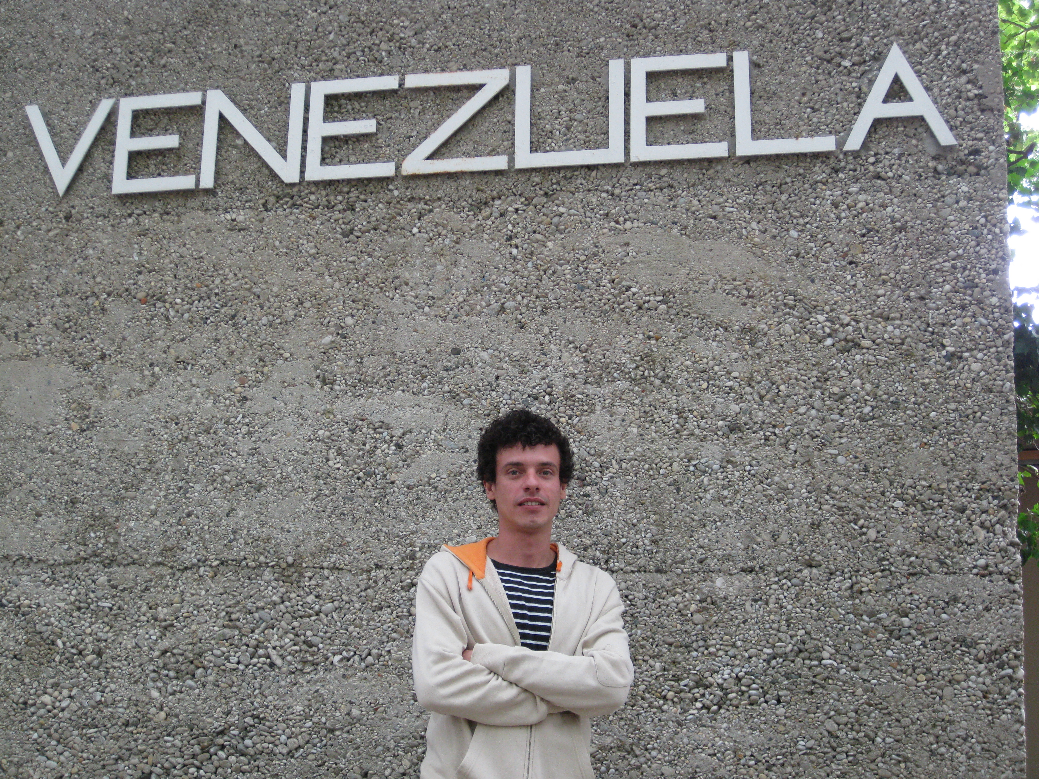 Daniel Medina in front of the Venezualian Pavilion in Venice - 2009